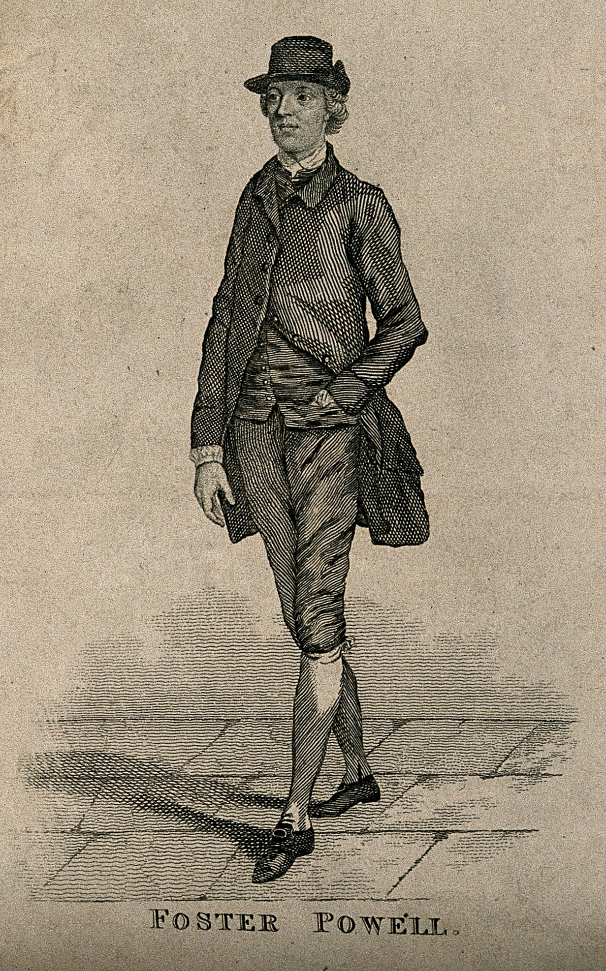 Foster Powell, a pedestrian. Etching. Iconographic Collections Keywords: Foster Powell